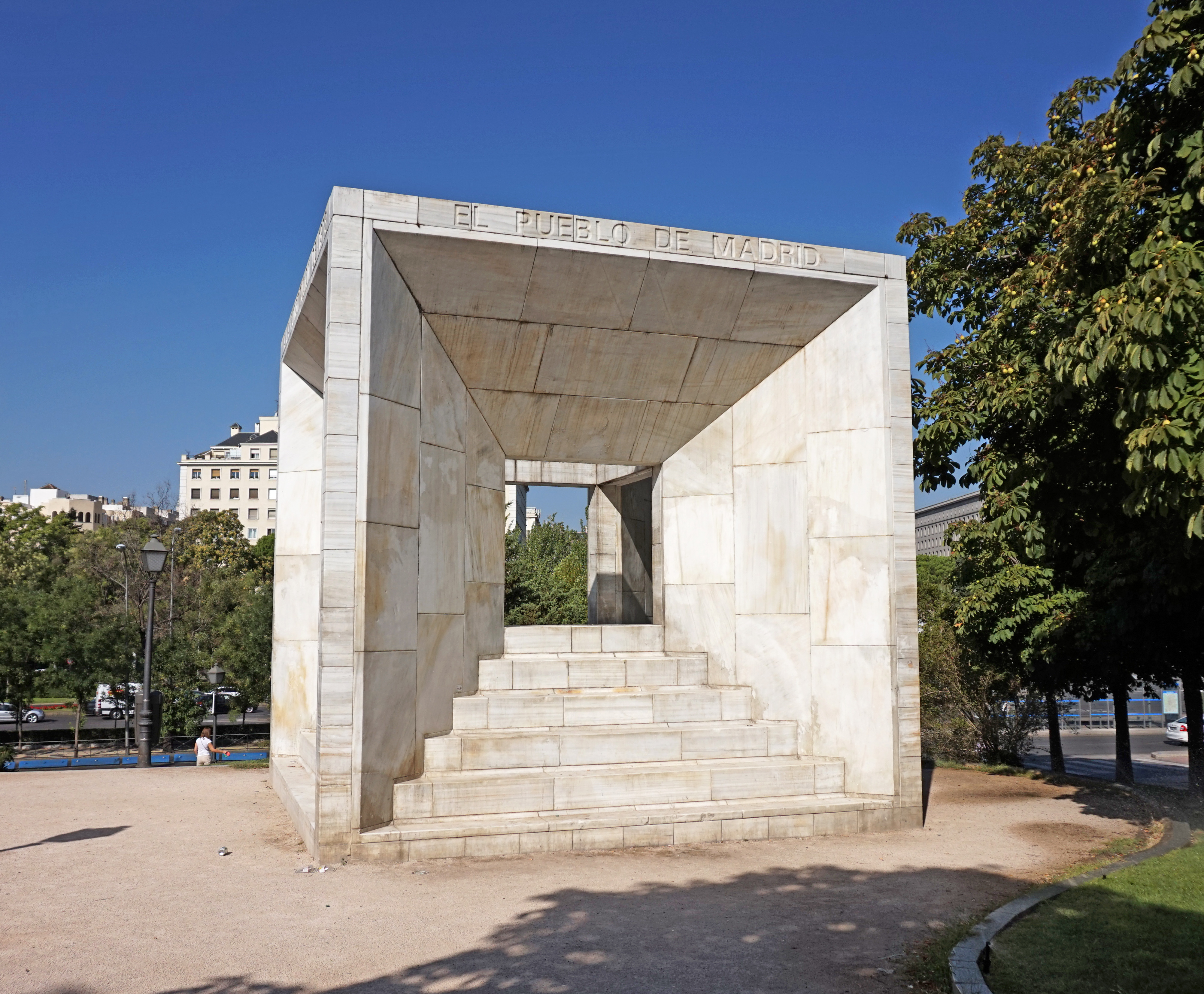 Madrid, Spain.This photograph was taken with a Sony ILCE-5000